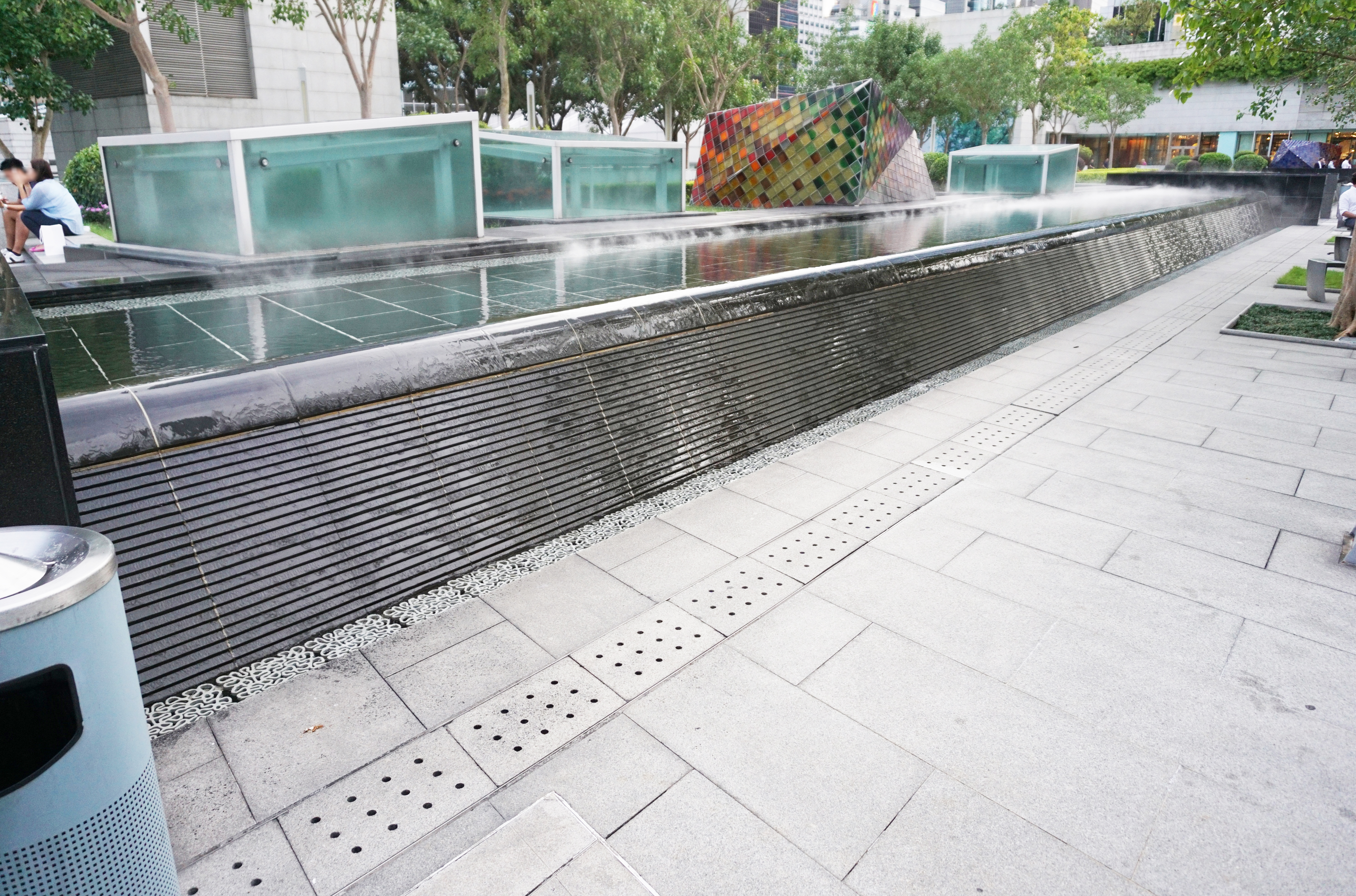 Hong Kong Station in Central, Hong Kong.